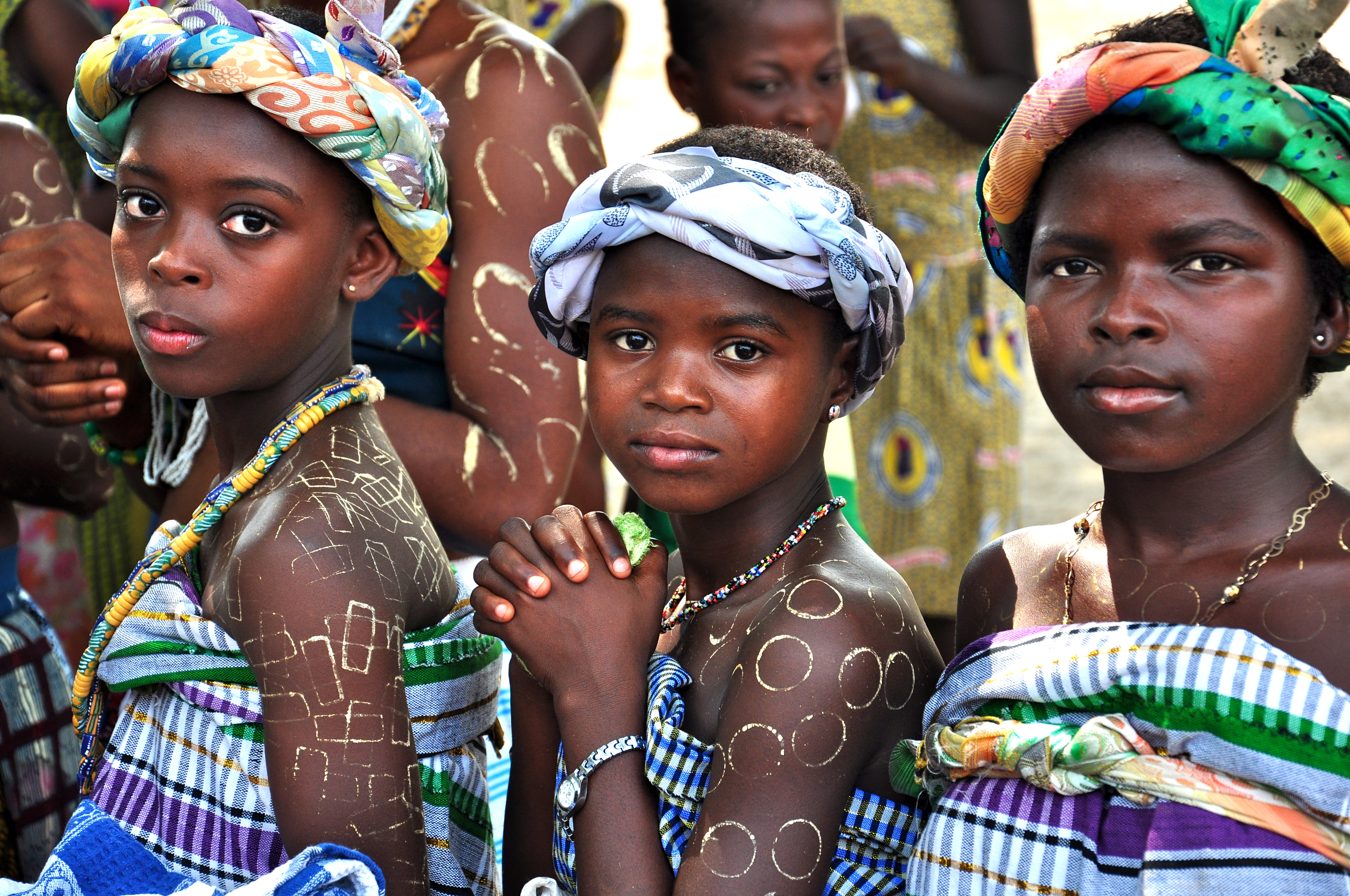 Young women in ceremonial dress at a community health event sponsored by USAID. (USAID/Kasia McCormick) 2012